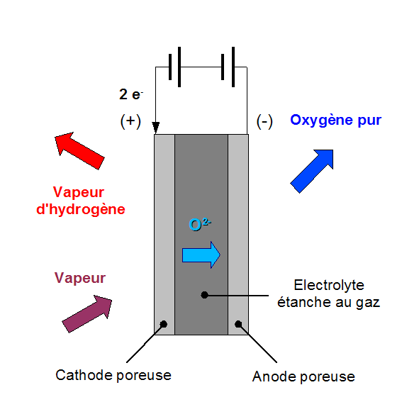 Picture file for high-temperature electrolysis. Drawn by Grimlock thanks to OOo